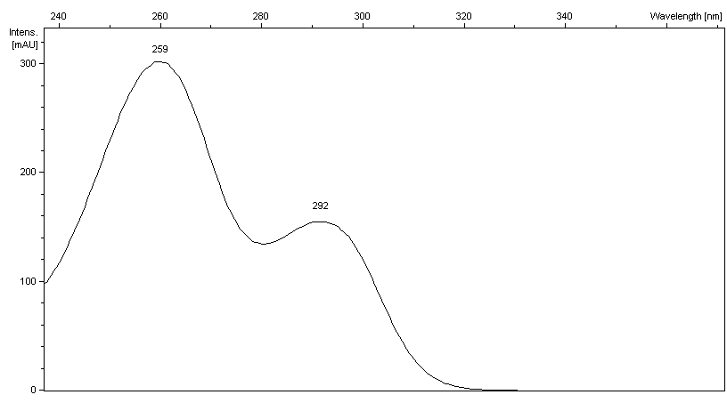 Vanillic acid UV visible spectrum